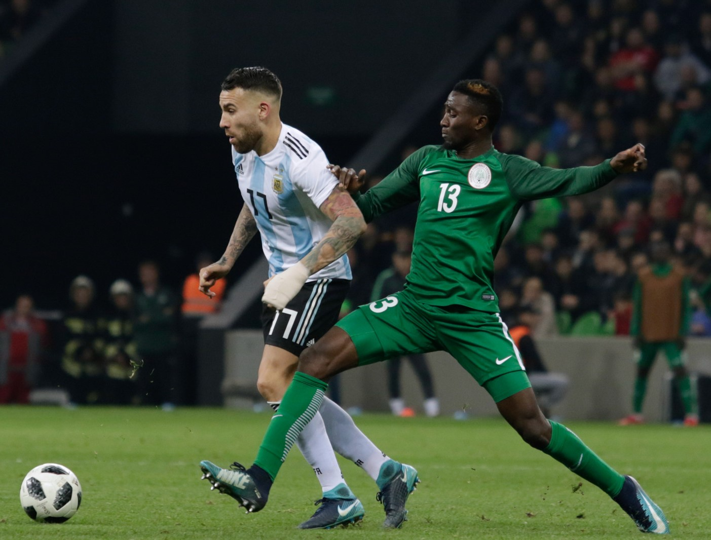 Wilfred Ndidi, Nicolás Otamendi